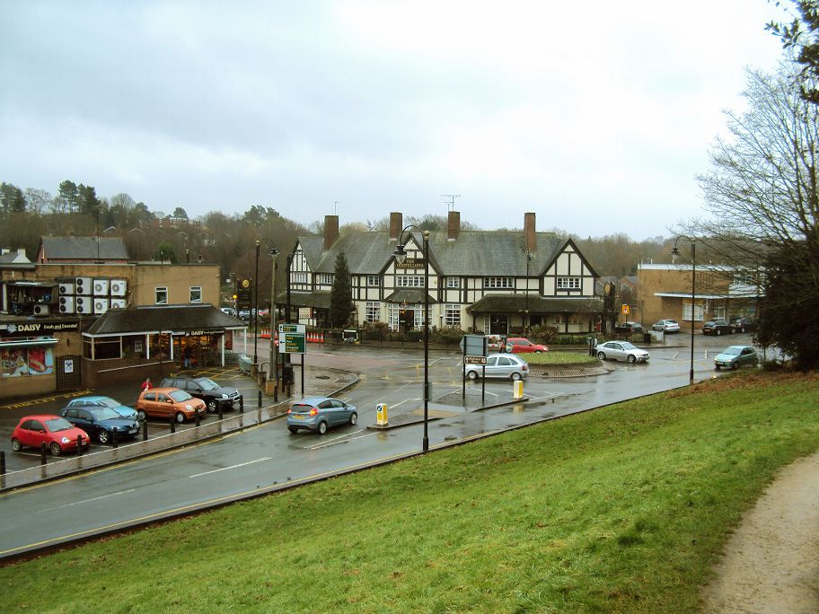 A view of the centre of Compton, Wolverhampton. Taken from a position on the grassy bank opposite the 'Daisy Fresh & Essential' store at the Henwood Road junction. Also visible is 'The Oddfellows' pub and restaurant, and distant houses and flats on Westhill and Broadway, Finchfield.